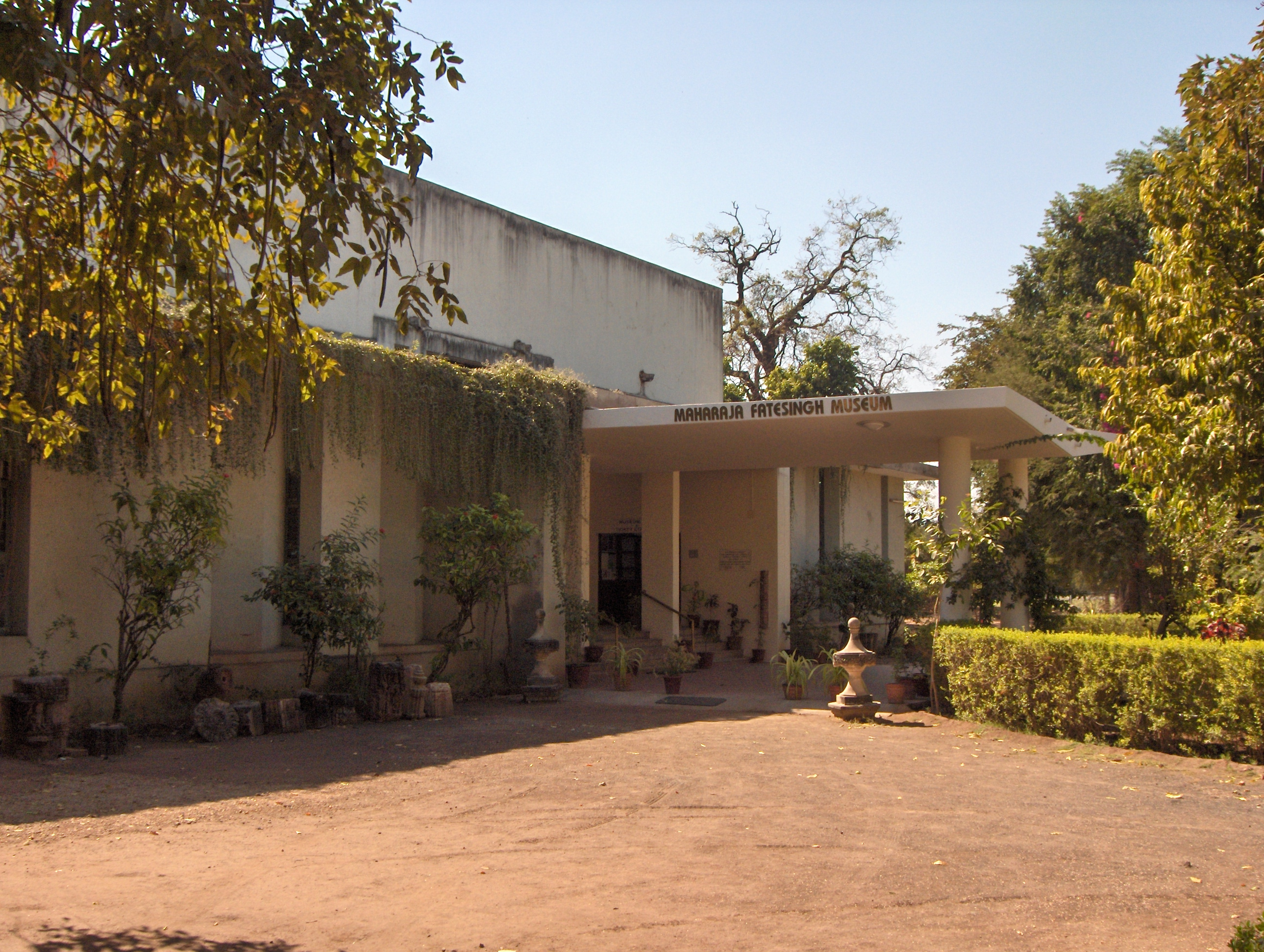 Vadodara in Gujarat, India Pic taken by me, Nichalp on 27-Jan-2006